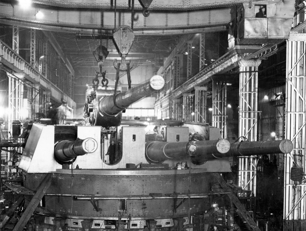 Removing no.3 gun from a 14 inch quadruple gun mounting in 24 Shop, Elswick Works, Newcastle upon Tyne, 30 April 1940 (TWAM ref. DS.VA/9/PH/5/2). ‘Workshop of the World’ is a phrase often used to describe Britain’s manufacturing dominance during the Nineteenth Century. It’s also a very apt description for the Elswick Works and Scotswood Works of Vickers Armstrong and its predecessor companies. These great factories, situated in Newcastle along the banks of the River Tyne, employed hundreds of thousands of men and women and built a huge variety of products for customers around the globe. The Elswick Works was established by William George Armstrong (later Lord Armstrong) in 1847 to manufacture hydraulic cranes. From these relatively humble beginnings the company diversified into many fields including shipbuilding, armaments and locomotives. By 1953 the Elswick Works covered 70 acres and extended over a mile along the River Tyne. This set of images, mostly taken from our Vickers Armstrong collection, includes fascinating views of the factories at Elswick and Scotswood, the products they produced and the people that worked there. By preserving these archives we can ensure that their legacy lives on. (Copyright) We're happy for you to share this digital image within the spirit of The Commons. Please cite 'Tyne & Wear Archives & Museums' when reusing. Certain restrictions on high quality reproductions and commercial use of the original physical version apply though; if you're unsure please .